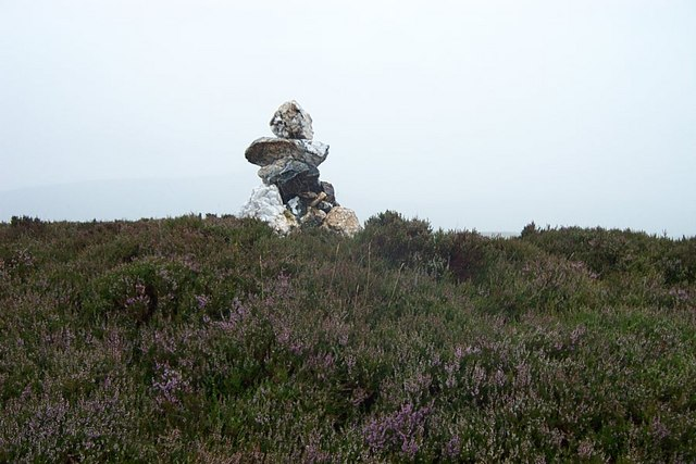 Cairn on Cefn Cyfarwydd. This cairn has been re-arranged to form a sort statue and can be found at grid reference SH 75395 63292.